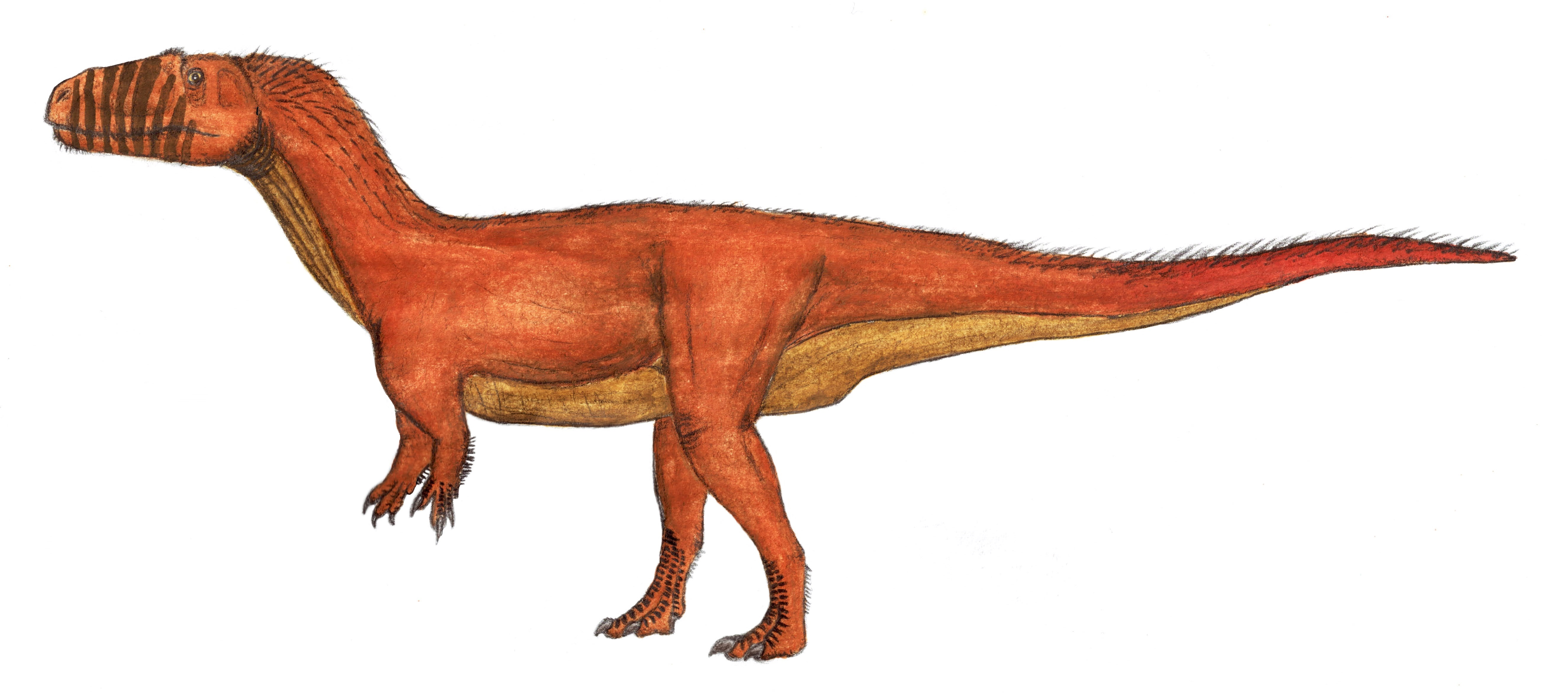 Reconstruction of Fosterovenator churei, a ceratosaurid dinosaur from the Late Jurassic of Wyoming.